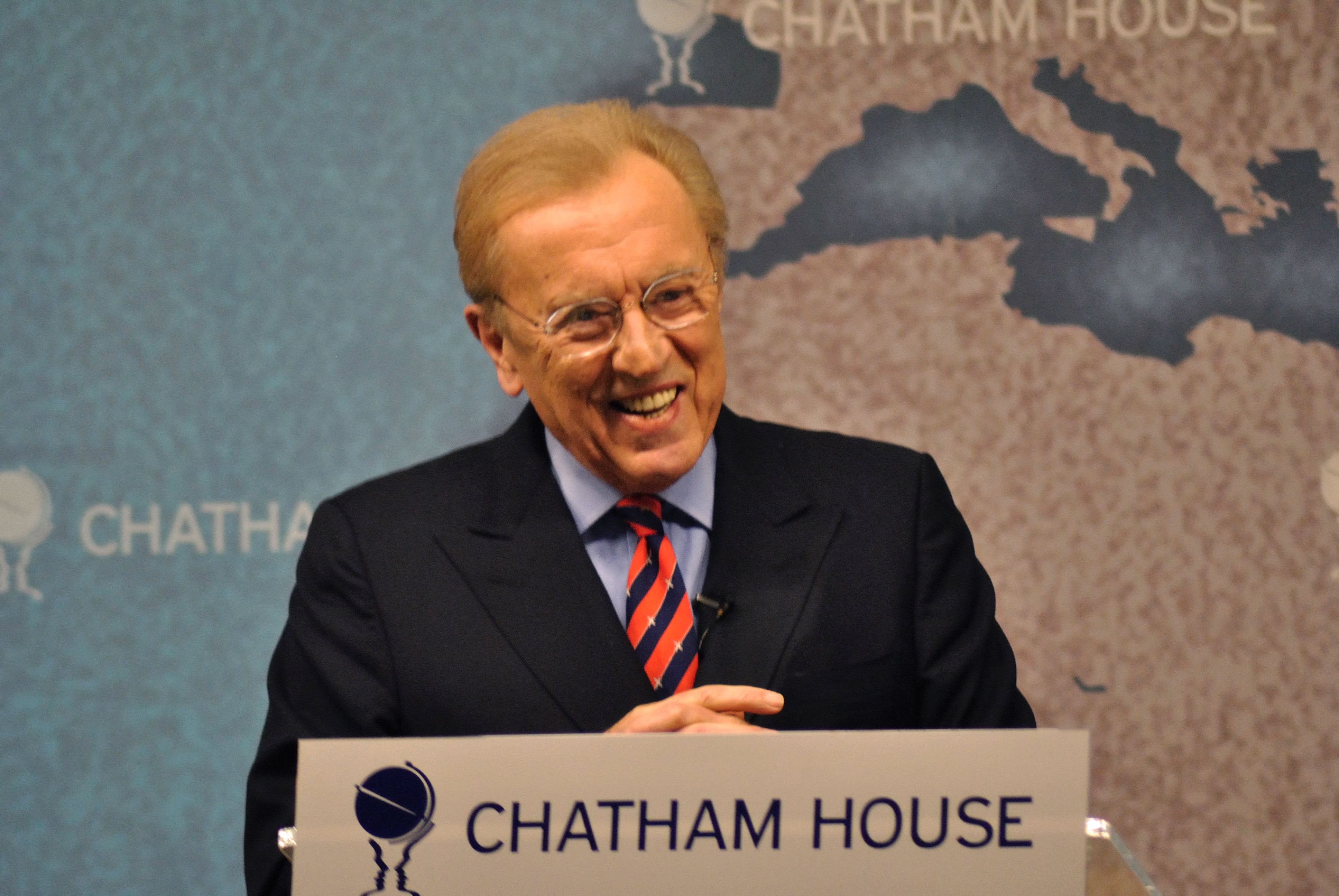 Interviews I Shall Never Forget, 13 October 2011